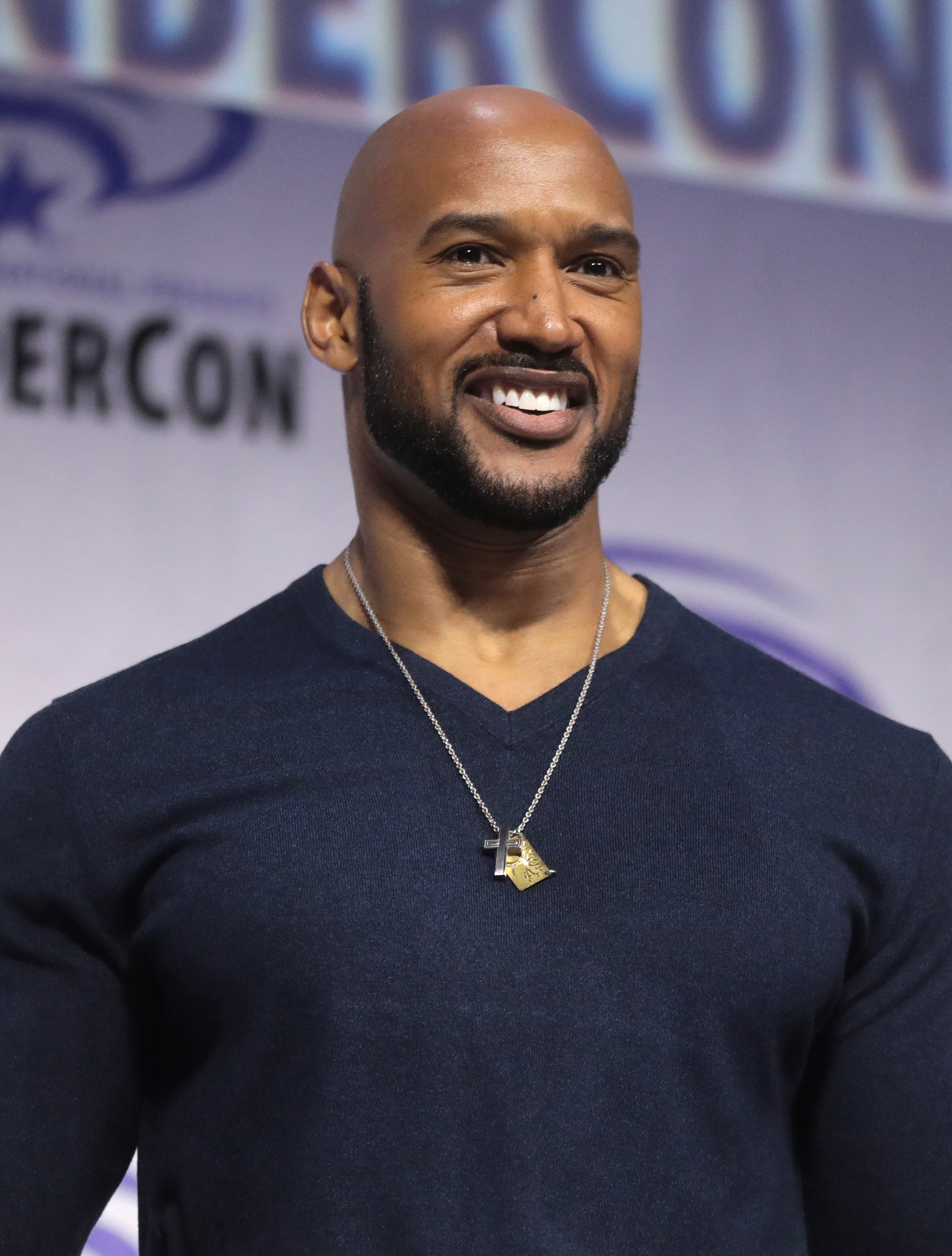 Henry Simmons at the 2019 WonderCon in Anaheim, California.